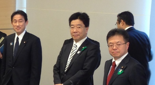 John Kerry, Secretary of State, met Shinzō Abe, Prime Minister, Fumio Kishida, Minister for Foreign Affairs, Katsunobu Katō, Deputy Chief Cabinet Secretary, and Hiroshige Sekō, Deputy Chief Cabinet Secretary, at the Prime Minister's Official Residence in Chiyoda Ward, Tōkyō Metropolis on April 15, 2013.